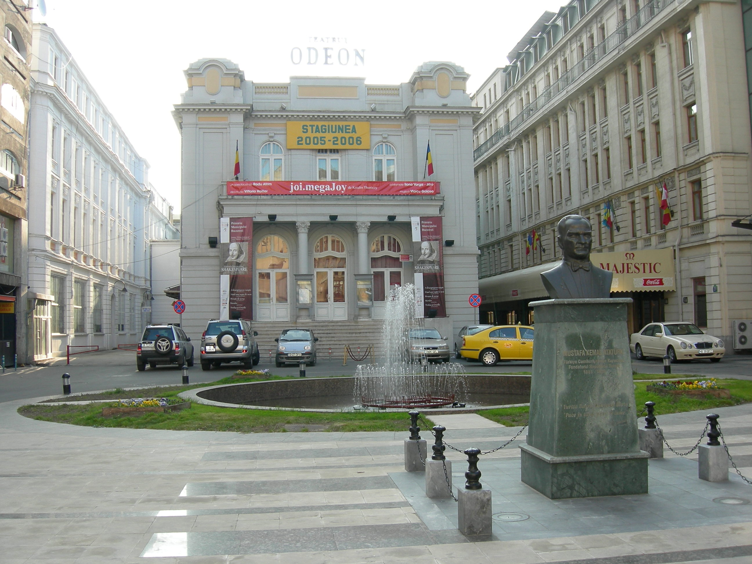 Teatrul Odeon (Odeon Theater), Calea Victoriei, Bucharest, Romania. The theater is the former Comedie Theater of the Romanian National Theater. The statue in the foreground is Kemal Atatürk.